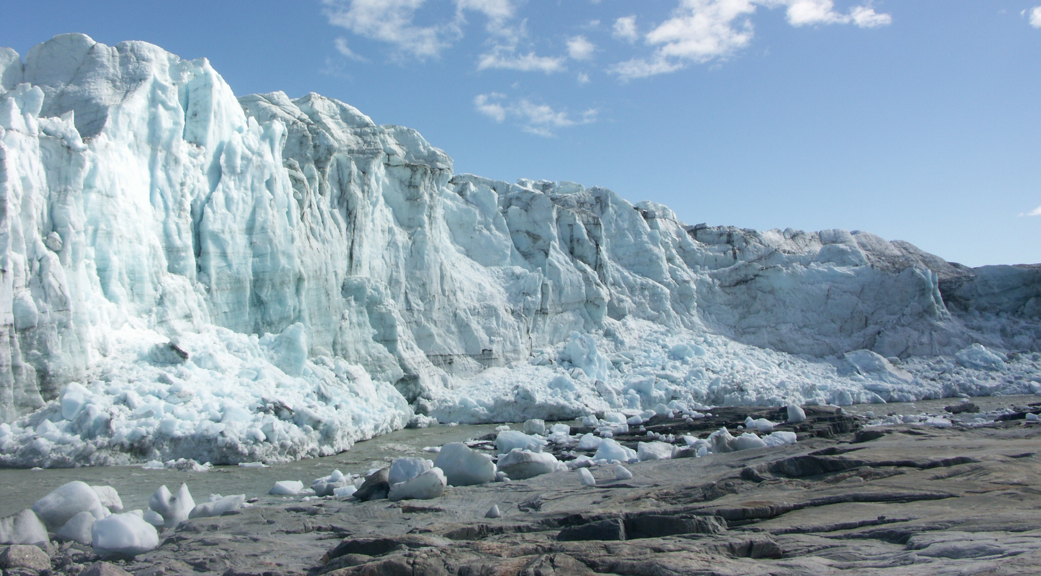 Russells Gletscher flowing from Sermersuaq, the Greenland Ice Sheet.